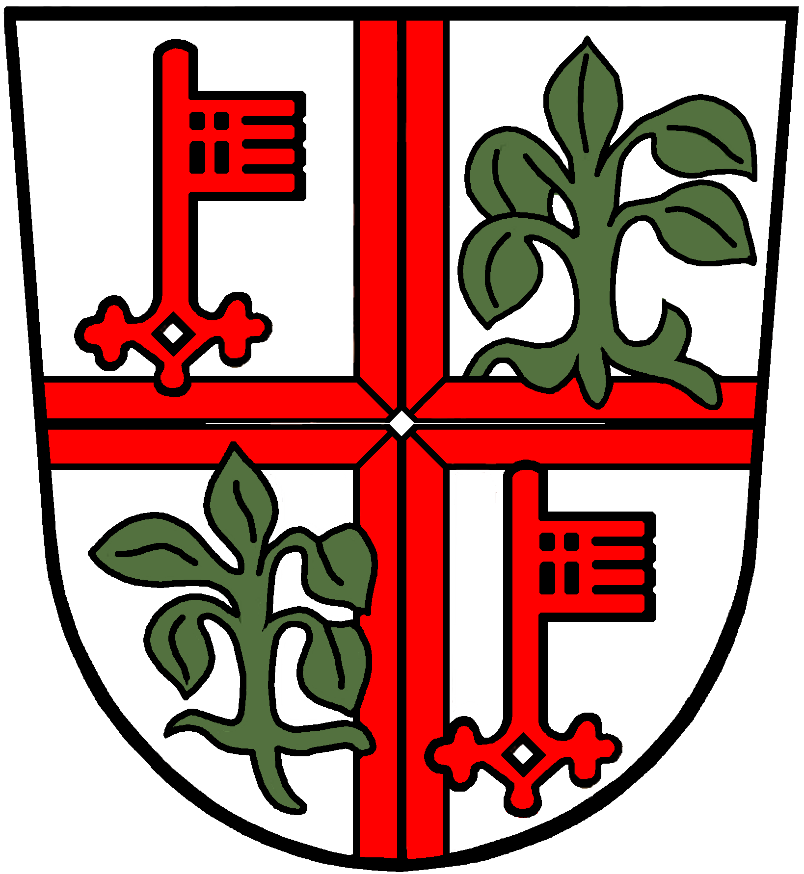 Mayen got city rights in 1291, and the oldest seal of the city dates from the same year. It shows a castle below two crossed keys. The keys symbolise the fact that the city belonged to the State of Trier. The patron saint of Trier is St. Peter, whose symbol is a key or, as it is often displayed, two crossed keys. Later seals show the same composition. The first seal showing a different composition dates from 1429, and shows a cross, with in each corner a key. The present arms are based on this seal. The trees are so-called May-trees (or freedom-trees), which are a canting symbol (Mai-baum, or Maie).